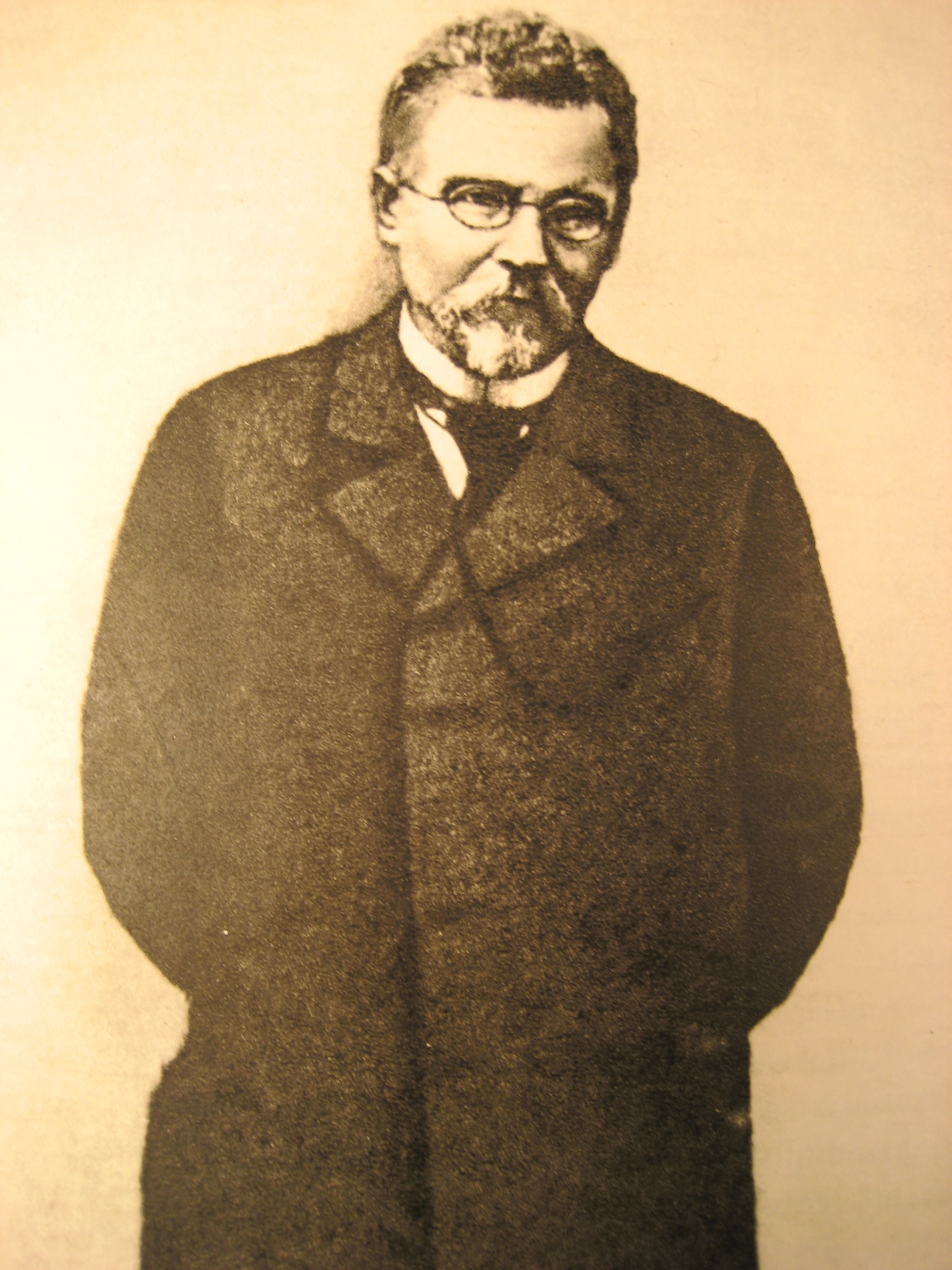 Jubilee portrait of Boleslaw Prus by Antoni Kamienski, 1897.